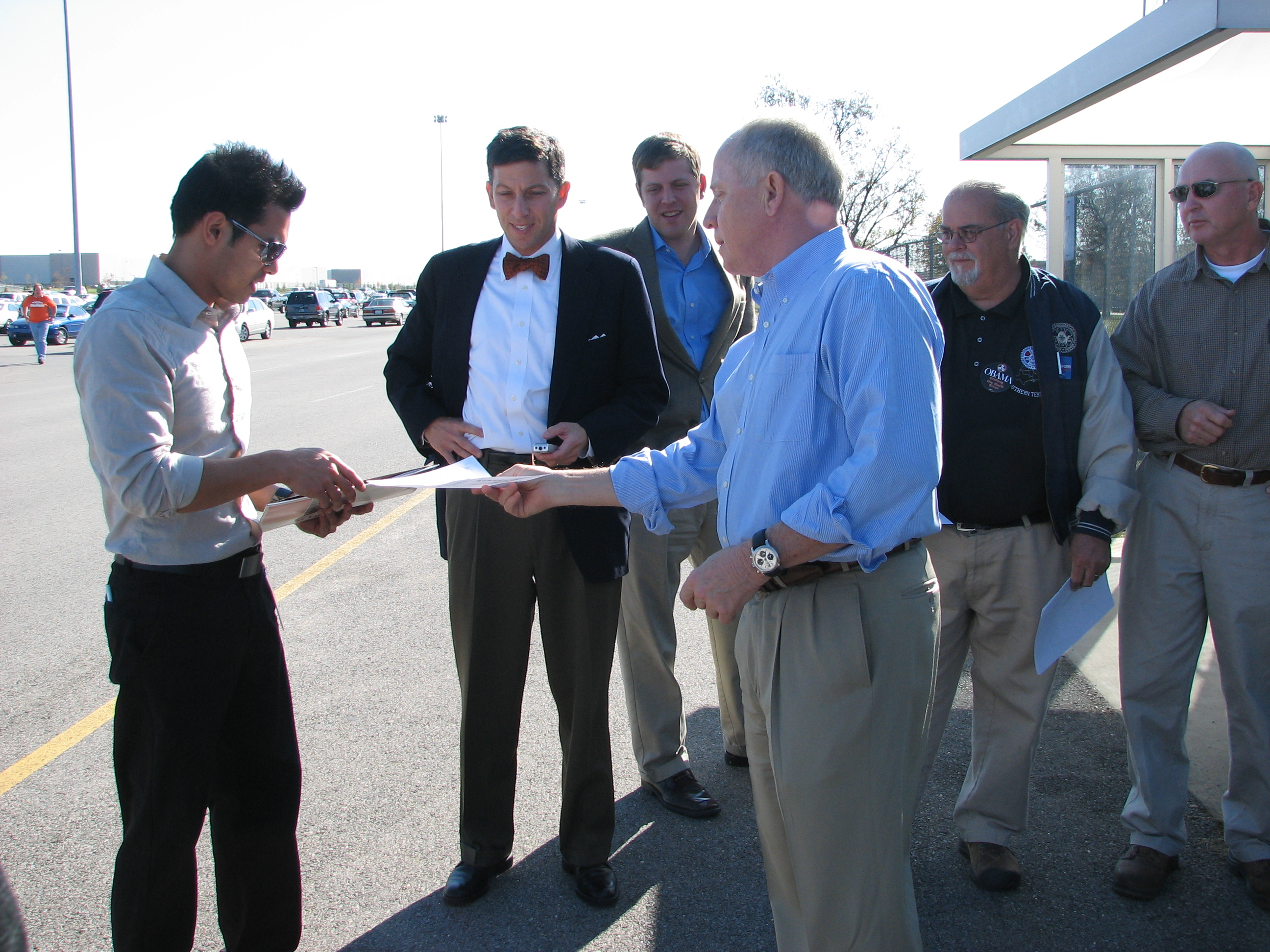 Photo Credit: Mandy Dixon